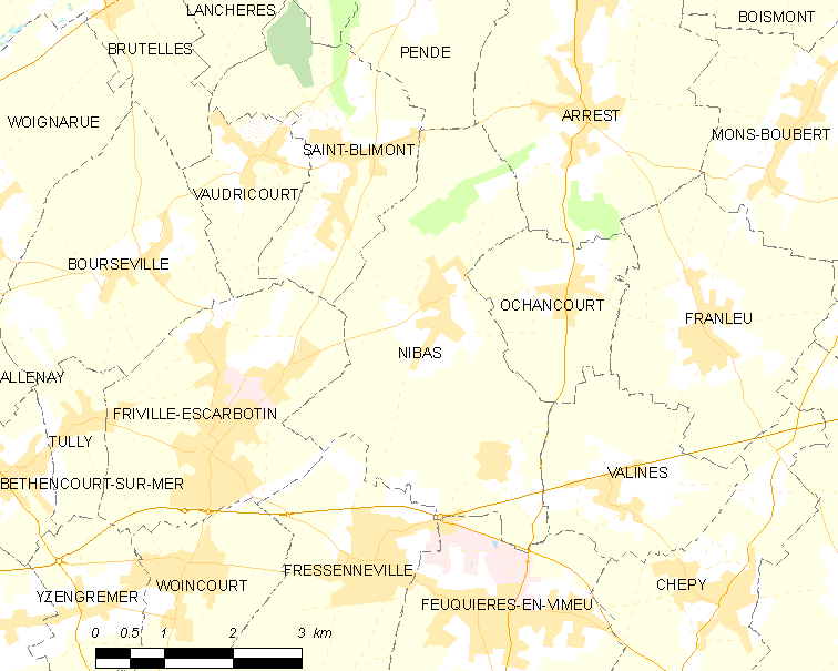 Map of French municipality Nibas